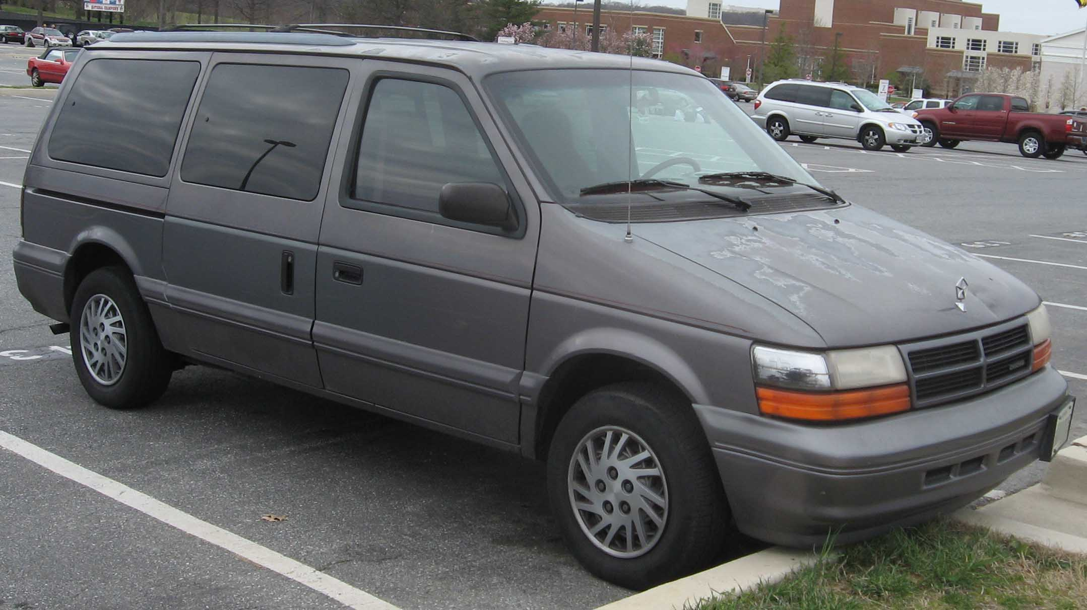 1991-1995 Dodge Grand Caravan photographed in College Park, Maryland, USA.